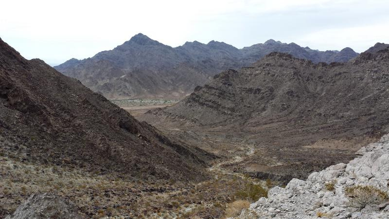 BLM - View from mountain dig site